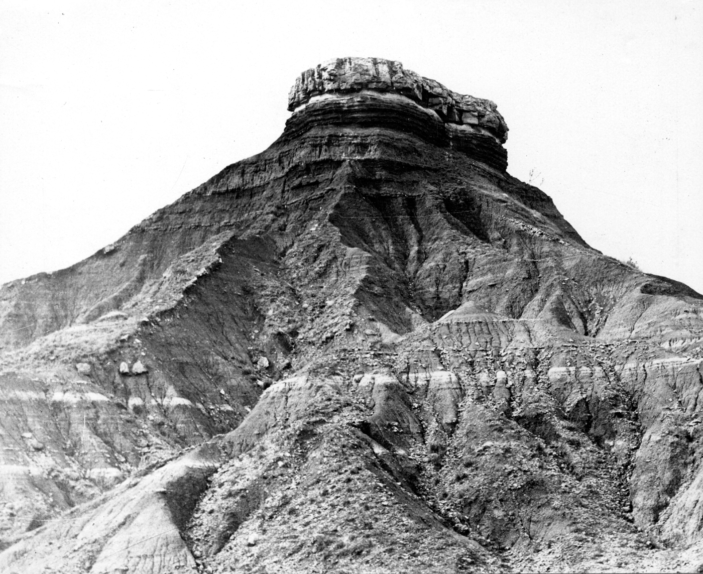 Glass Mountain, capped with massive gypsum. Woods County, Oklahoma. Circa 1900.